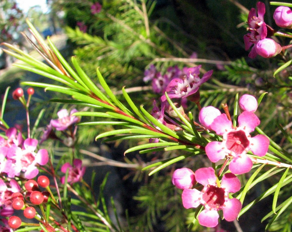 Geraldton Wax photographed by me in Chatswood, Sydney